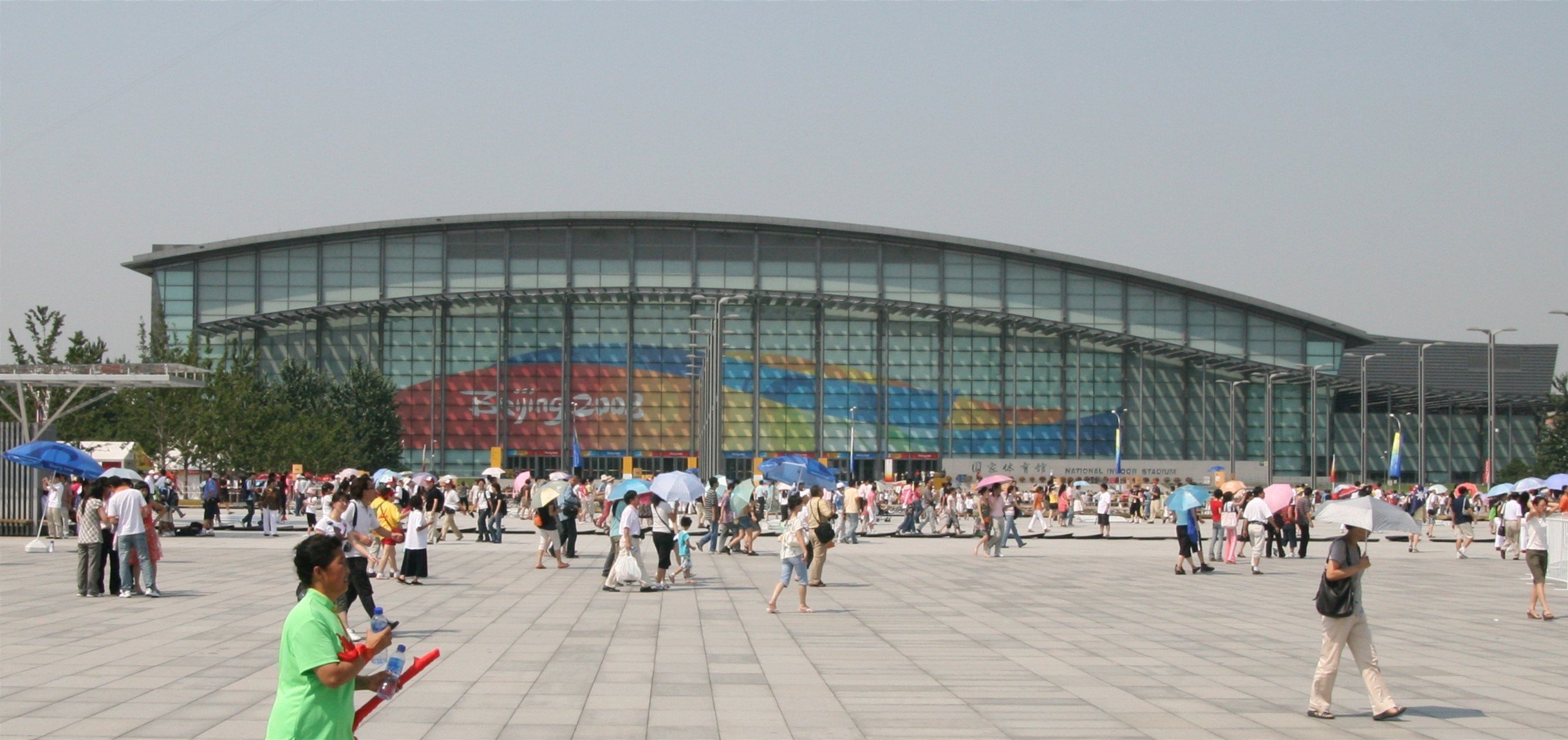 Beijing National Indoor Stadium August 2008